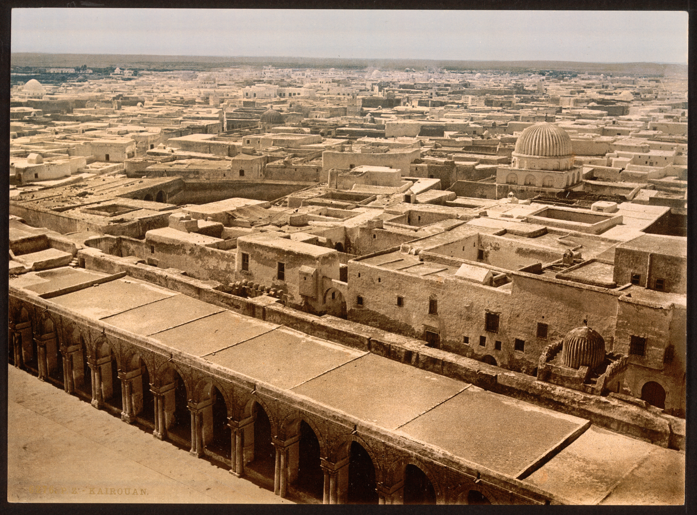 A photochrome print of Kairouan, Tunisia, taken from the Great Mosque.